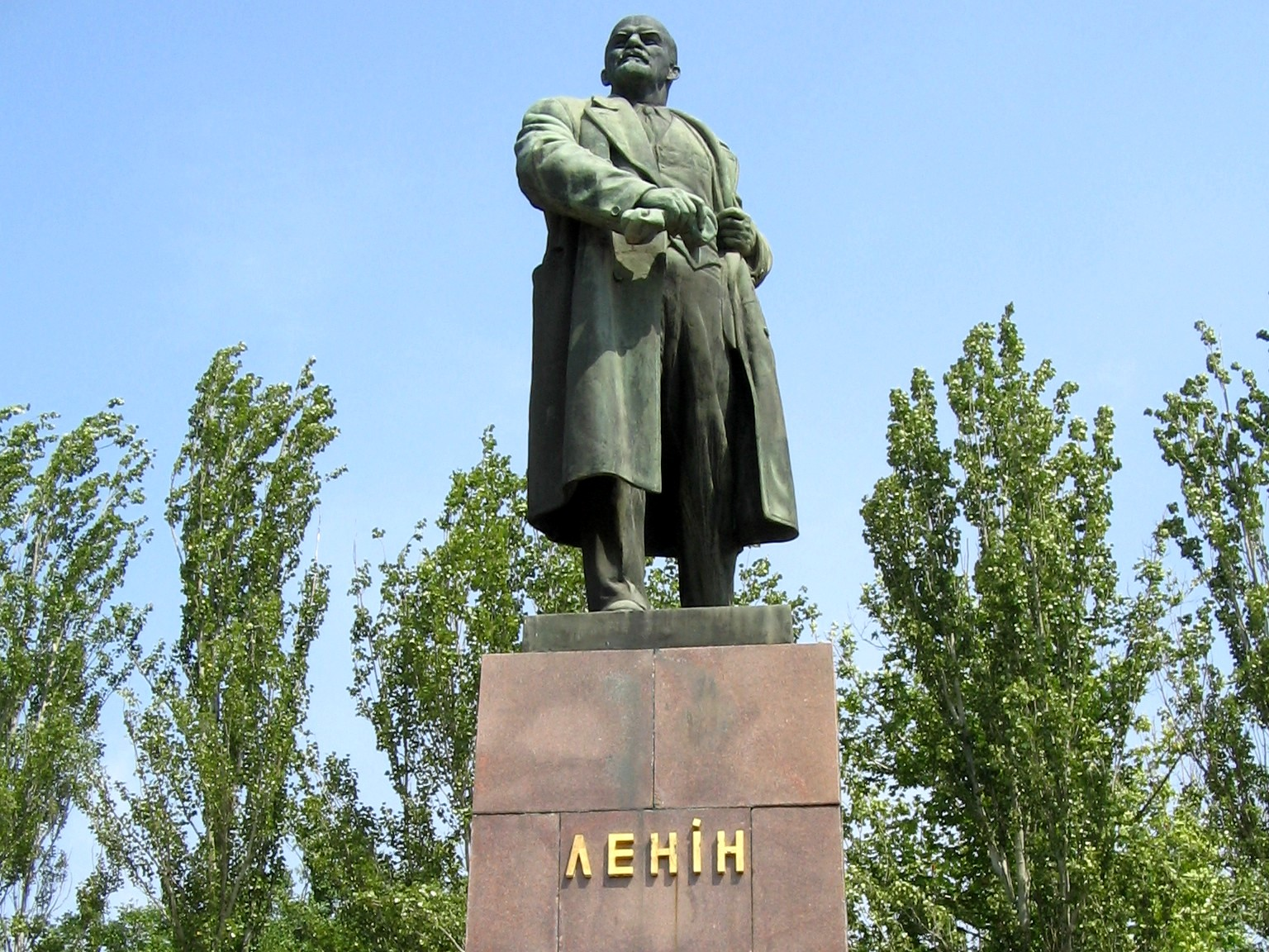 Советская Ленин (Николаев)